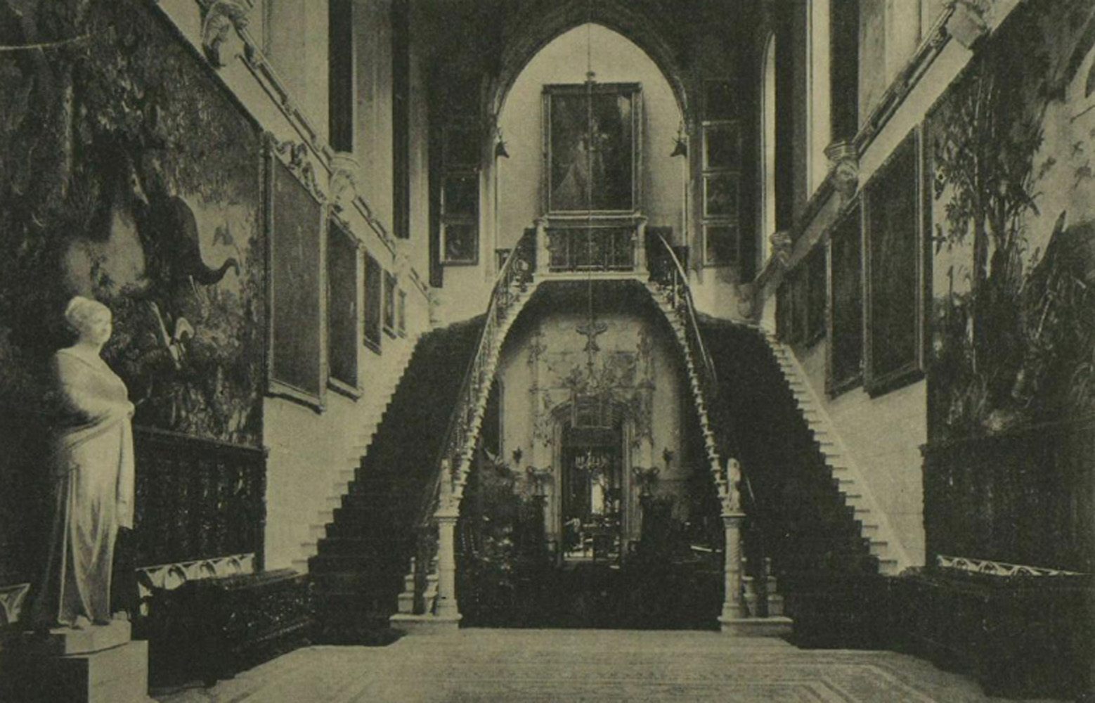 The hall and grand staircase of Highcliffe Castle in 1907. On the left is the statue of Lady Waterford by Joseph Boehm.